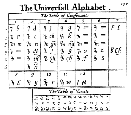 Table of Francis Lodwick's Universall Alphabet